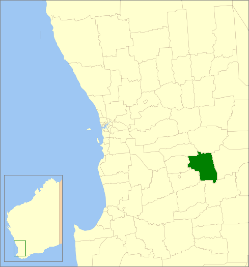 Description=Location of the Local Government Area in Western Australia